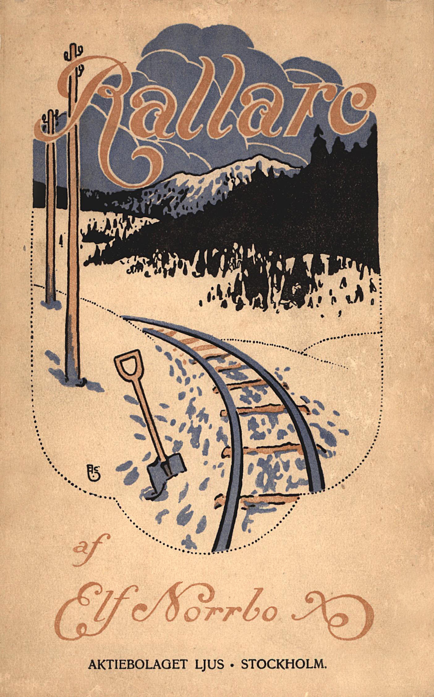 Book cover: Elf Norrbo: Rallare